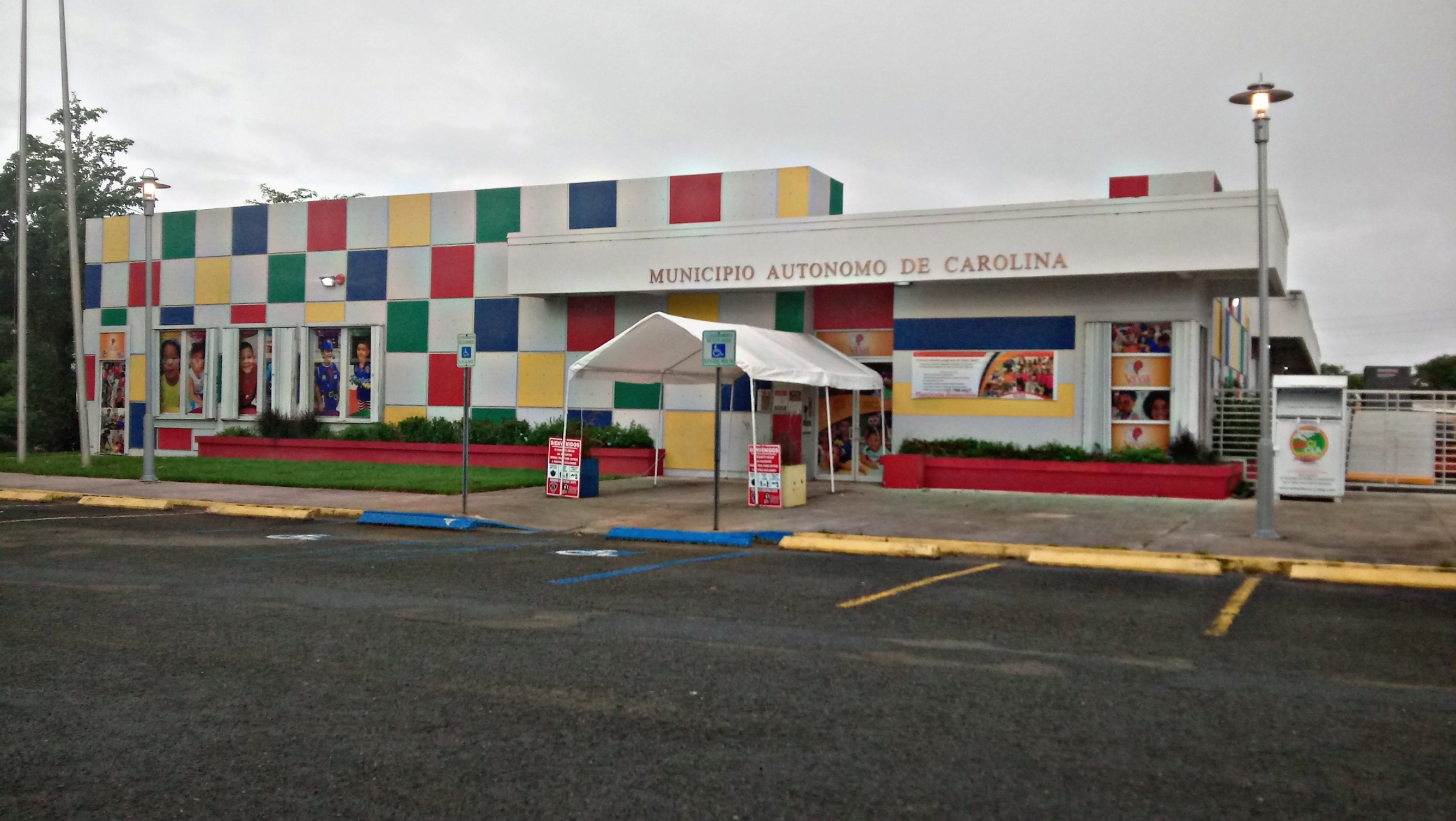 Building in Martin González, Carolina, Puerto Rico where Head Start and Early Head Start currently have their offices